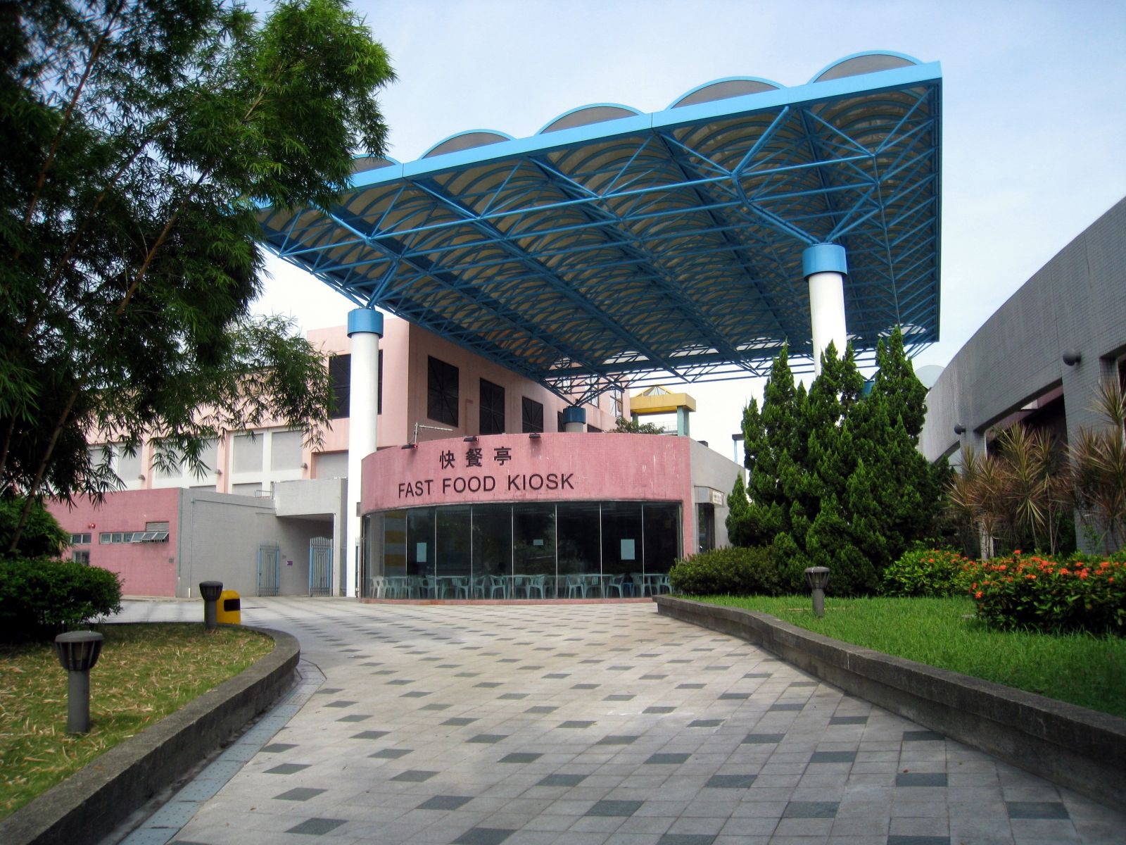 Tin Shui Wai Swimming Pool Fast Food Kiosk